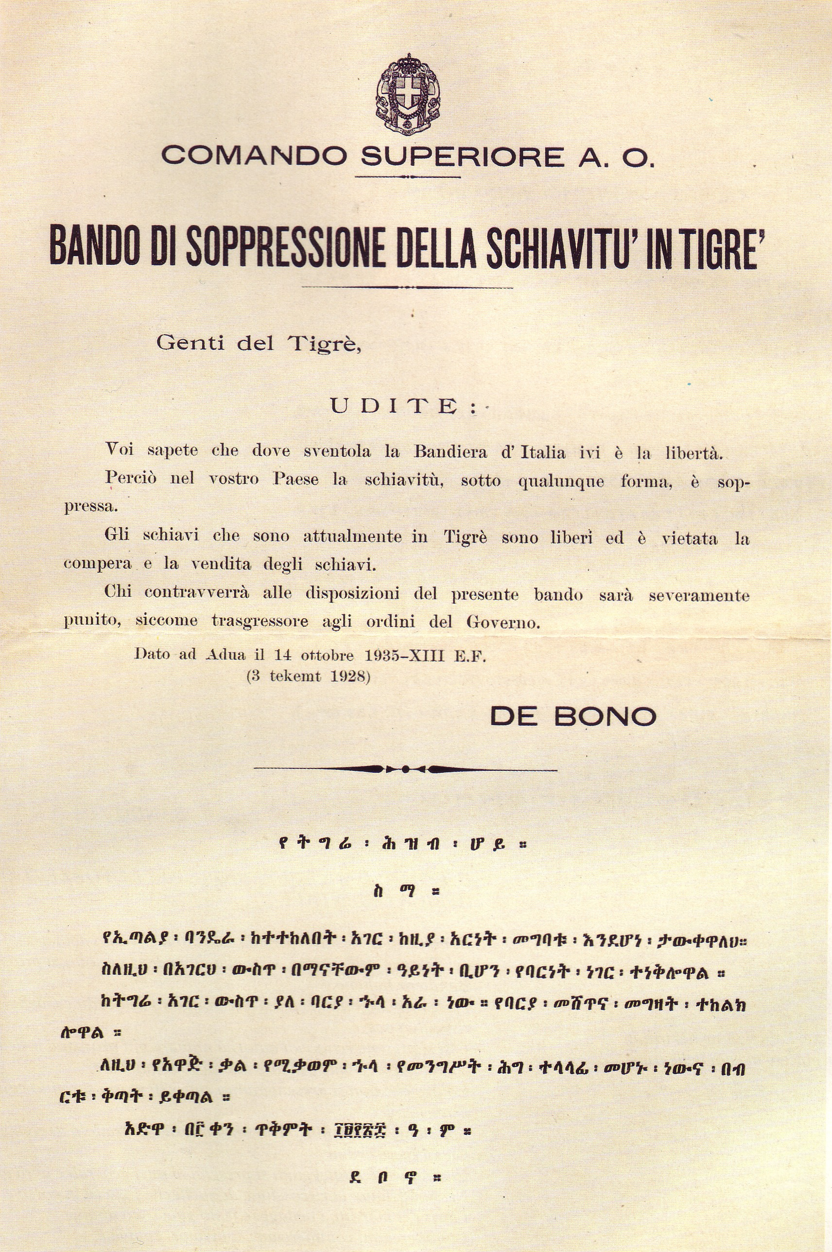 Italian poster against slavery in Tigrè, Ethiopia ( 1935)